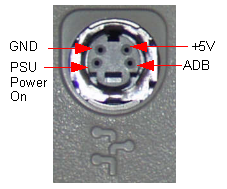 The pinout of the Apple Desktop Bus (ADB) mini-DIN connector.